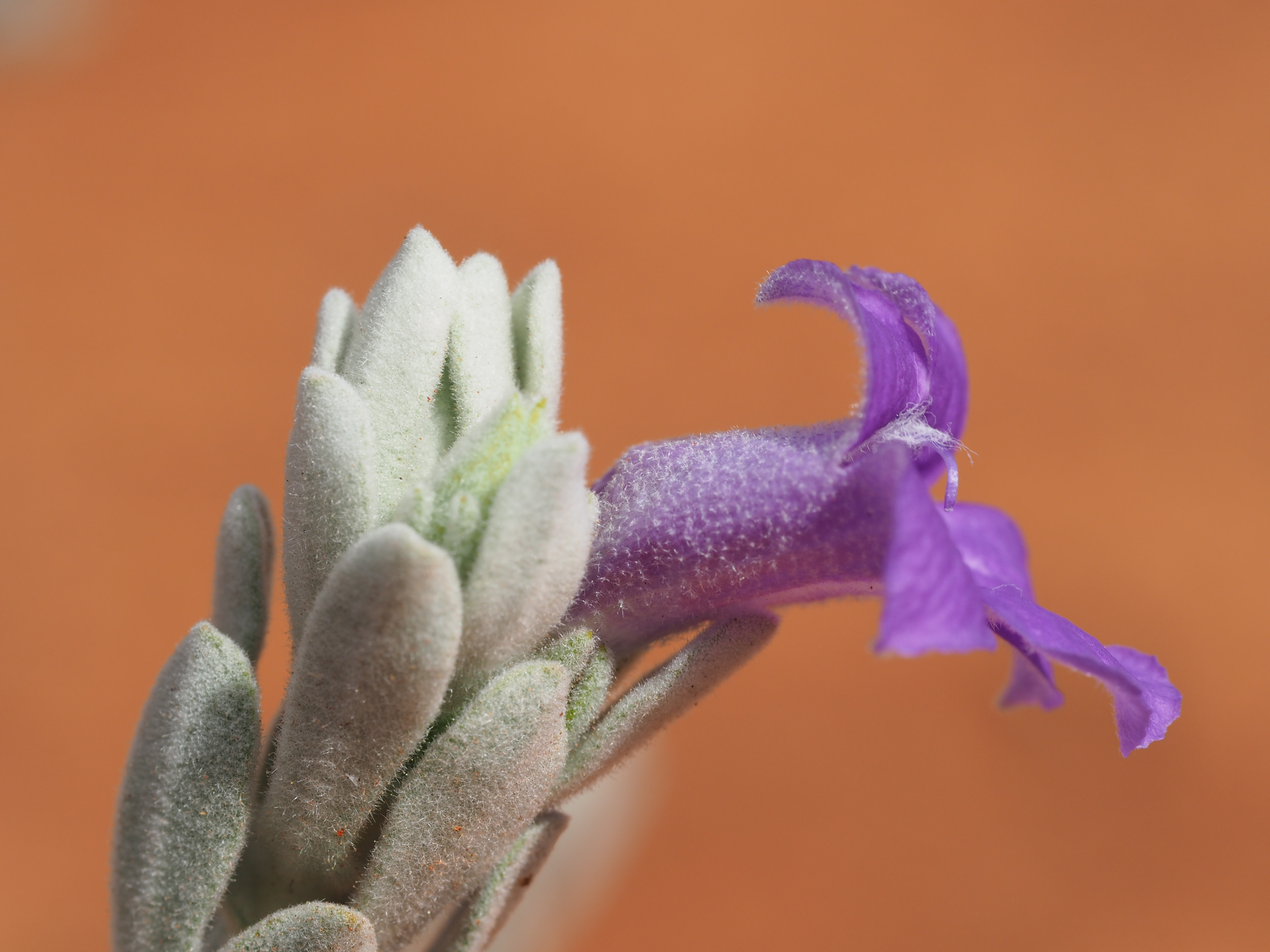 Eremophila hygrophana growing 27km west of Wiluna